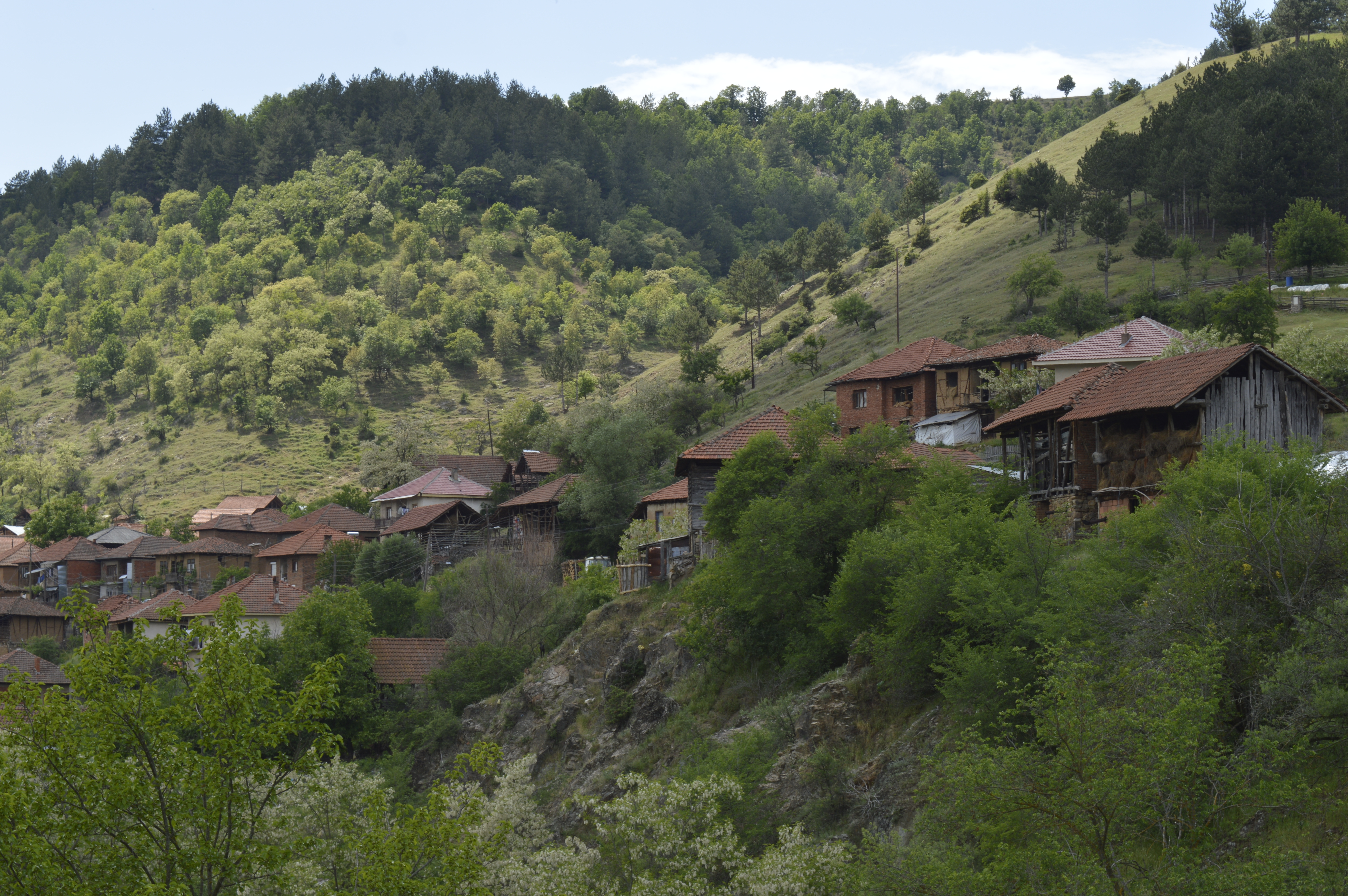 View of the village Razlovci